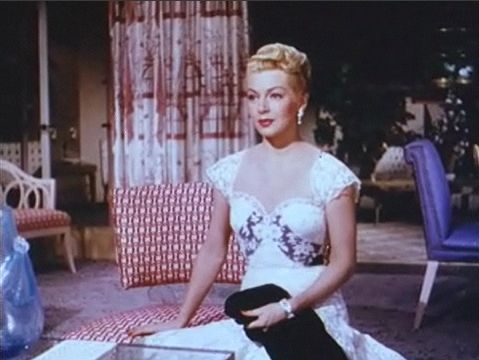 Cropped screenshot of Lana Turner from the trailer for the film Latin Lovers